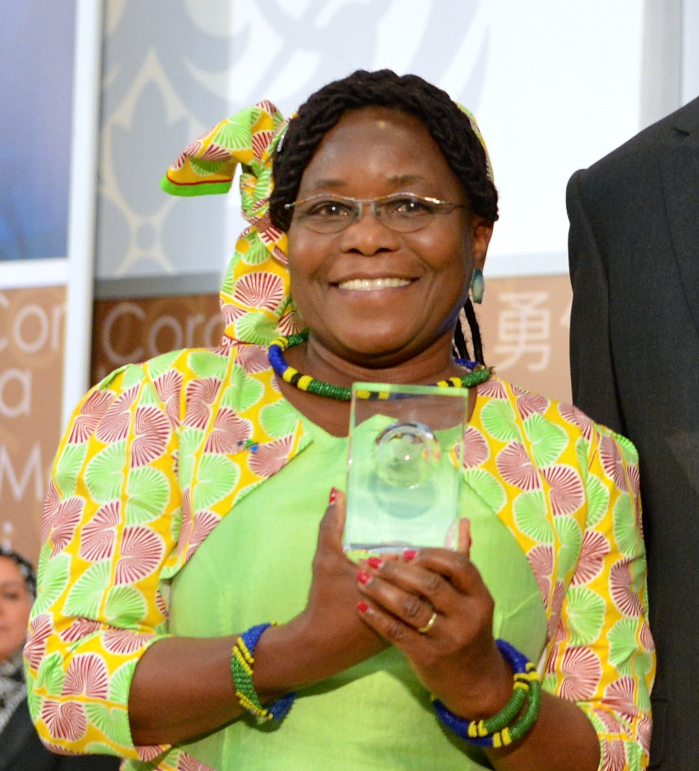 U.S. Secretary of State John Kerry presents the 2016 International Women of Courage Award to Vicky Ntetema of Tanzania, Executive Director of Under the Same Sun, at the U.S. Department of State in Washington, D.C., on March 29, 2016. [State Department photo/ Public Domain]